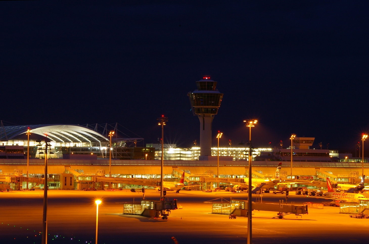 Munich Airport at night